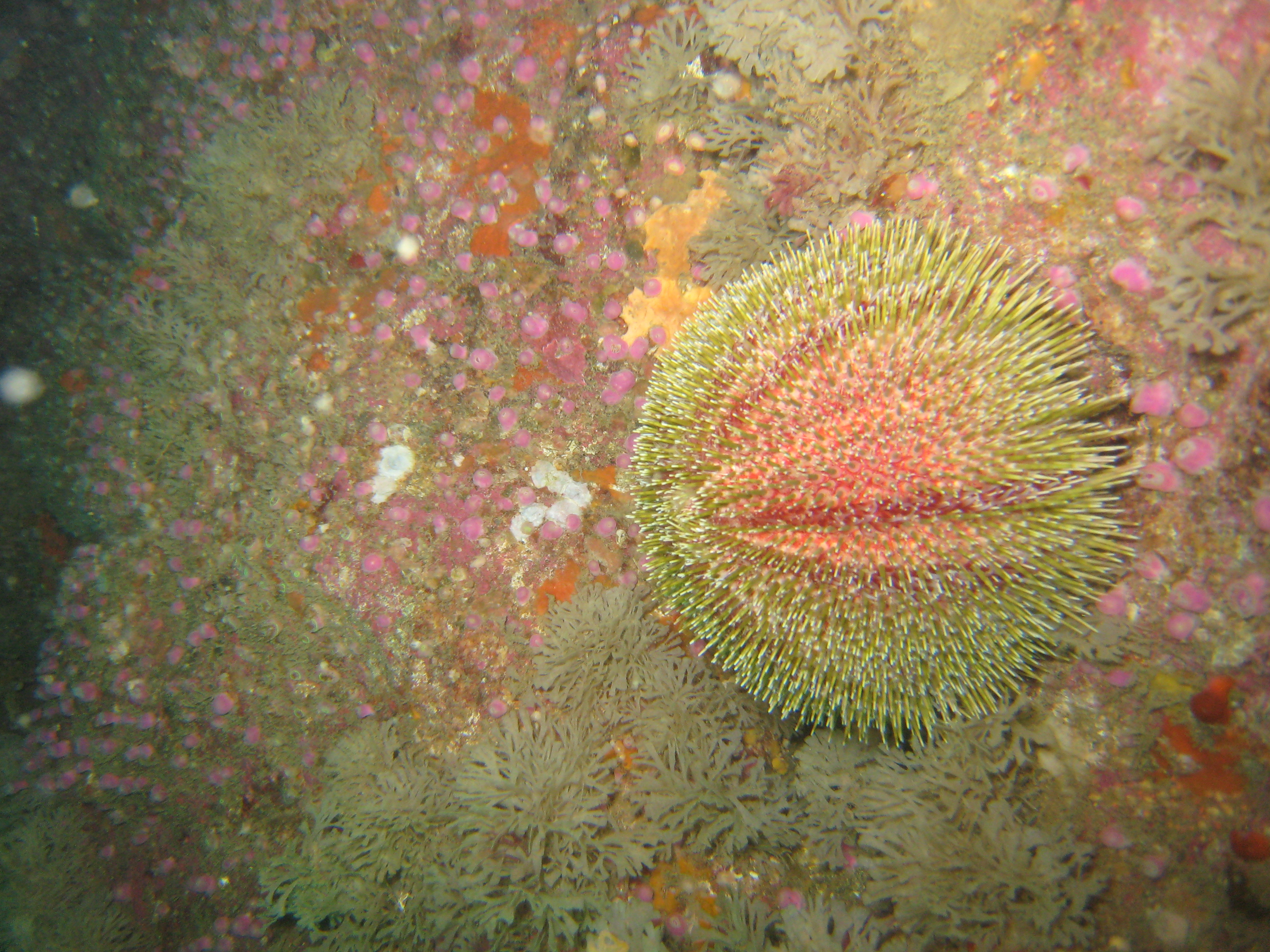 Echinus esculentus on a Corynactis viridis wall in Carantec.